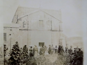 Church in Nazareth, built on supposed site of Joseph's workshop, 1891. From original silver print in book titled: "A Month in Palestine and Syria, April 1891," (author unknown). Original 19th century book in the possession of Kimberly Blaker, New Boston Fine and Rare Books.